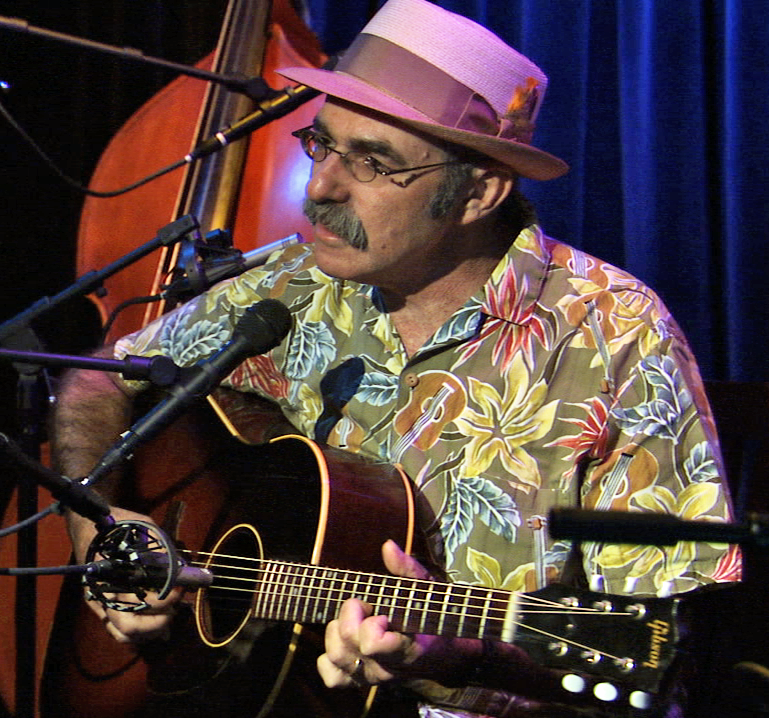 "Book".